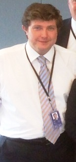 Andrew Lewer MEP